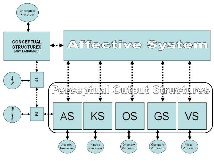 The MOGUL version of the cognitive system is sketched in simplified form. The circles or ovals represent specialised processors and the rectangular boxes each represent the particular memory store of structures which they are designed to handle. Affective structures (AfS) are not differentiated in this figure. Also, for simplicity's sake, only five "senses" are portrayed in the POpS system. All languages are handled by the selfsame syntactic and phonological processors but different languages will involve both shared and unique syntactic structures (SS) and phonological structures (PS) residing in, respectively, their syntactic and phonological memory stores. Mental activity is characterised by the formation of chains or networks of structures across different modules. This is achieved by means of interface processors (the dotted arrows) following Jackendoff (1987). These are bimodular in that they do match elements in two adjacent modules: they can only access and link certain structural elements in one or the other module. Moreover, the matching is not a "translation" of one element into terms (the code) of another system: there is no exchange of information, merely a chaining of elements that can otherwise only be processed within their own particular processing unit/module.